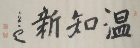 Mitsuru Toyama's handwriting